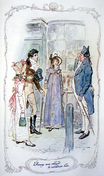 Illustration for ch.41 of Mansfield Park, in the Series of English Idylls, published by J.M Dent & Co. (London) and E.P. Dutton & Co. (New York). Fanny was obliged to introduce him.